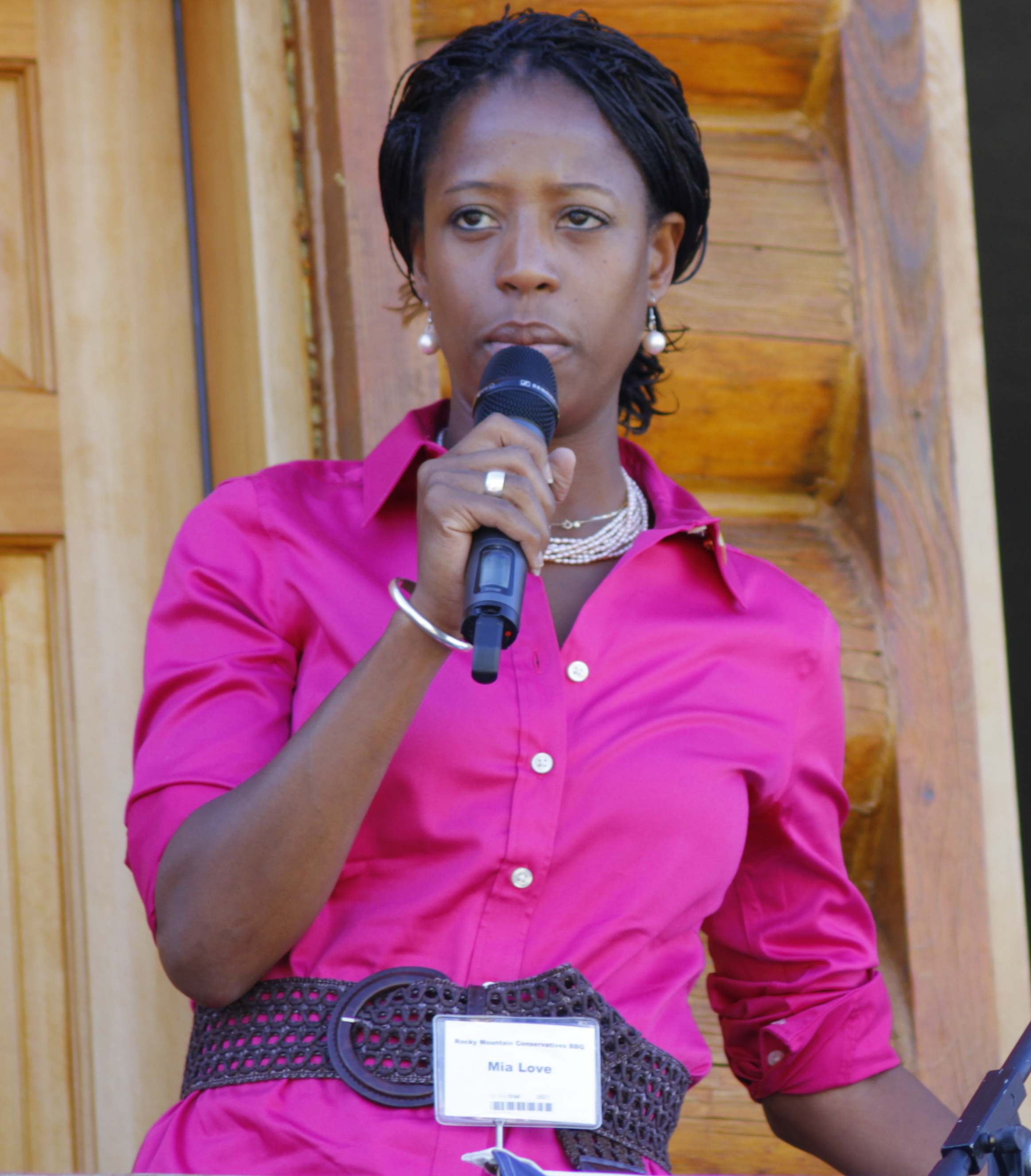 Mia Love at the Rocky Mountain Conservatives BBQ 2011